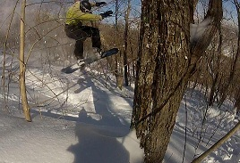 Picture of a snowboarder soaring through the air while snowboarding off the trails in the trees